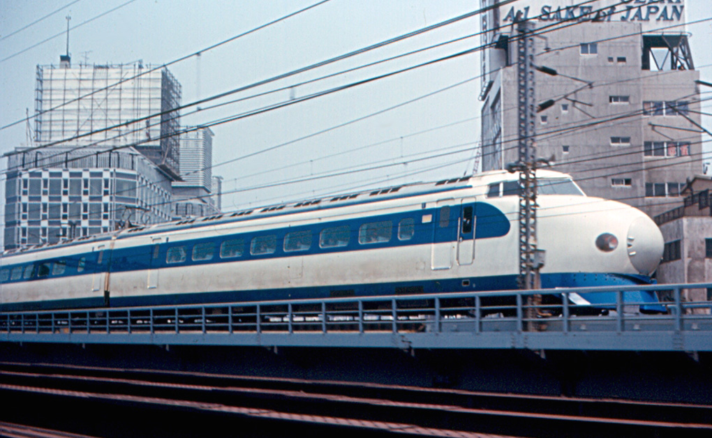 0 series shinkansen near Yurakucho Station inTokyo